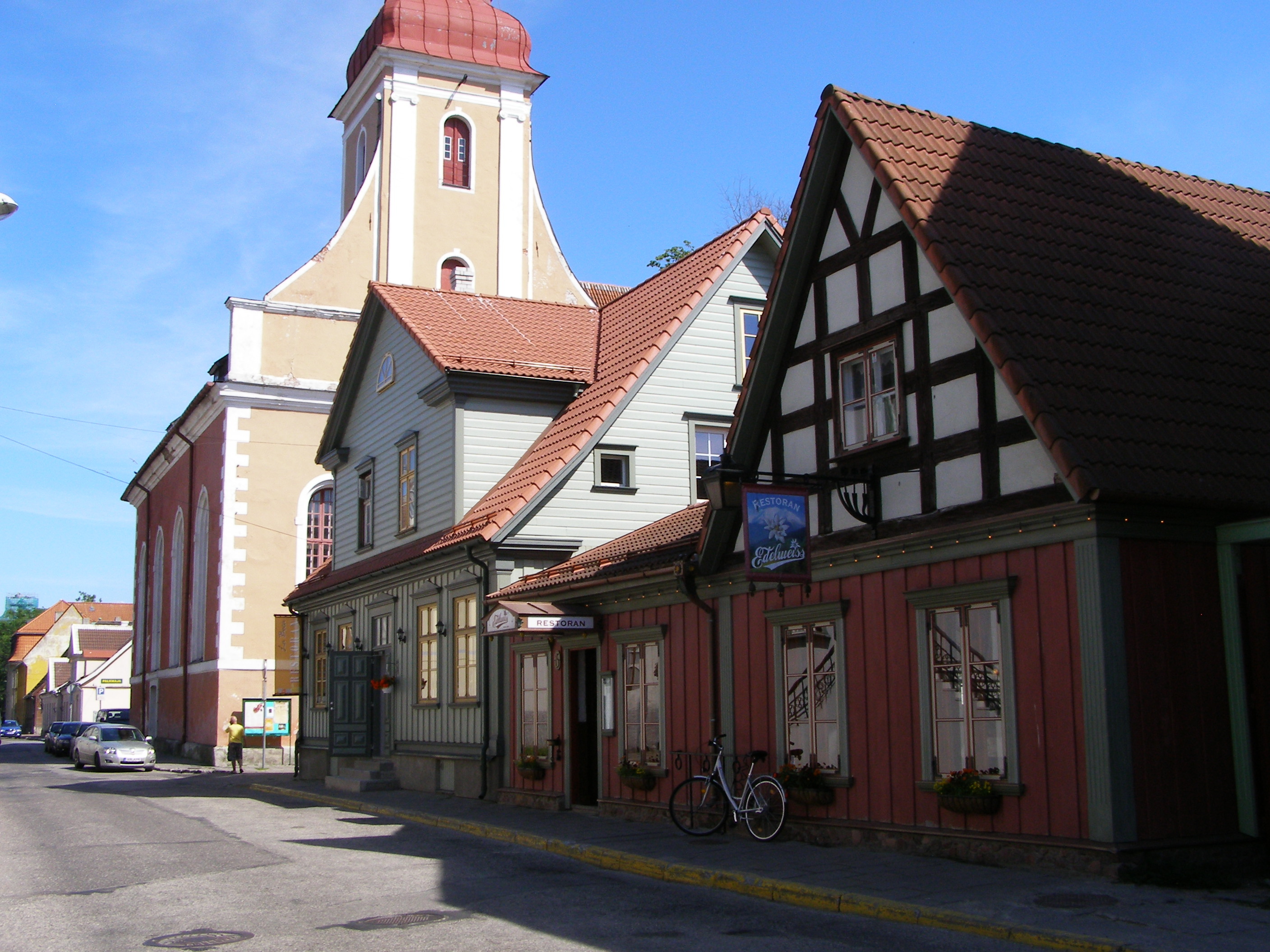 An Old Town Street in Parnu, Estonia